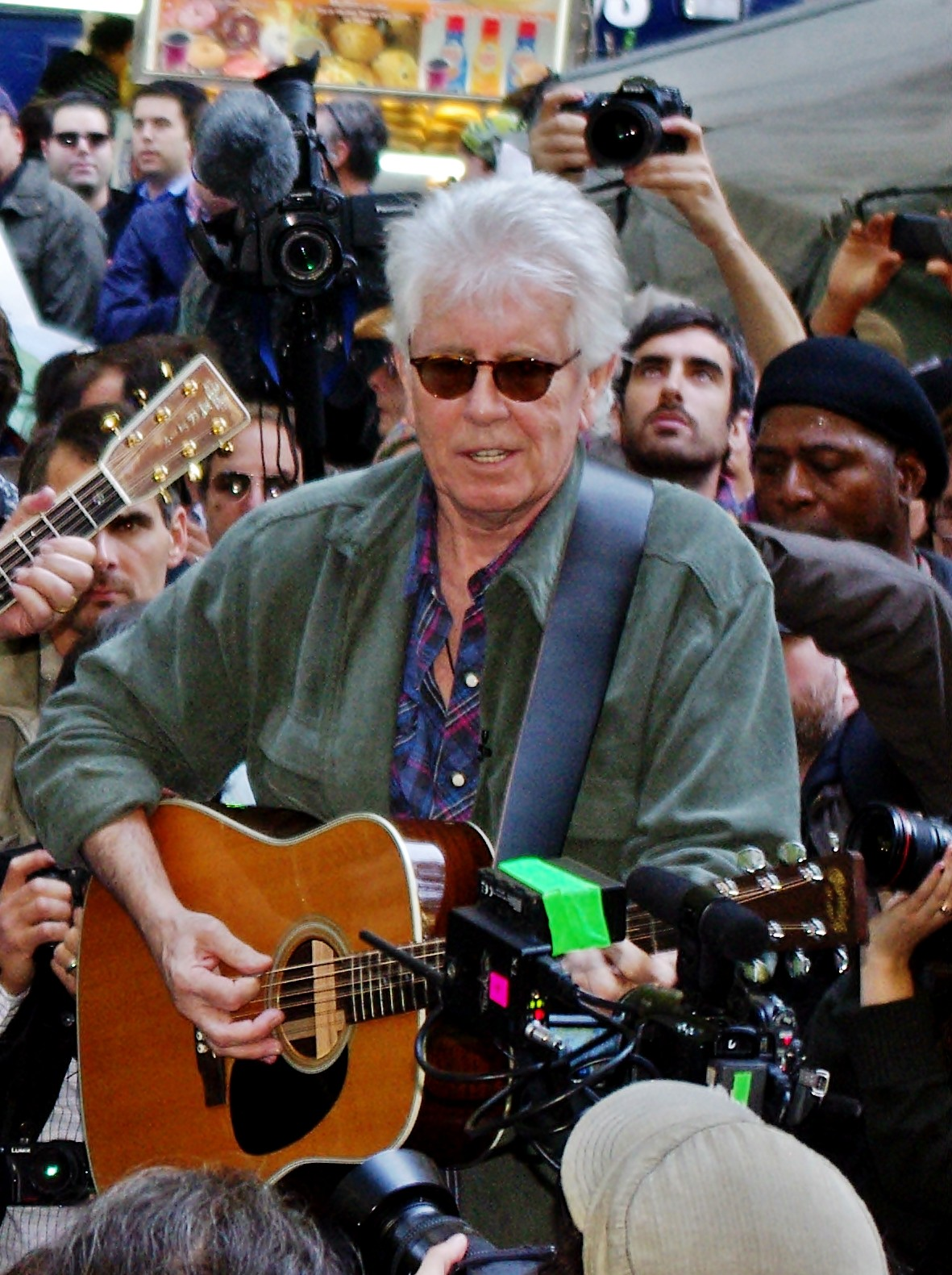 Graham Nash plays Occupy Wall Street on Tuesday, November 8.